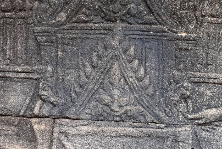 Khmer-style roof pediment of wooden architecture in 12th century.